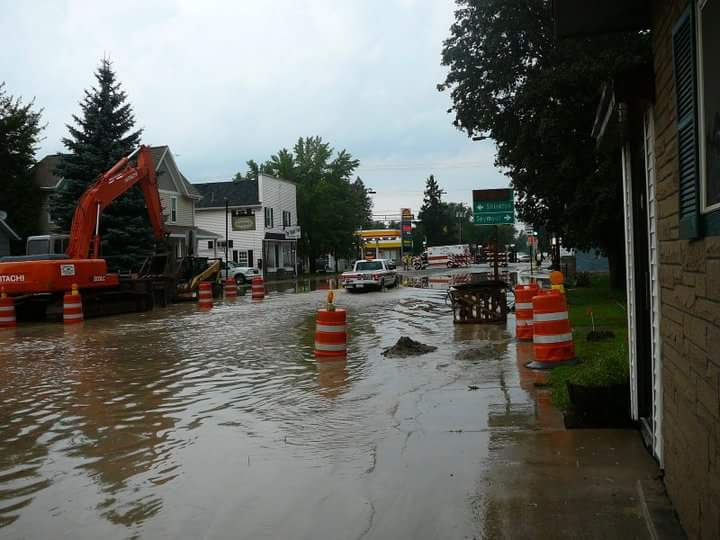 A flooding event in Black Creek, Wisconsin along Main Street on 19 July 2010 when four inches of rain fell in 20 minutes.